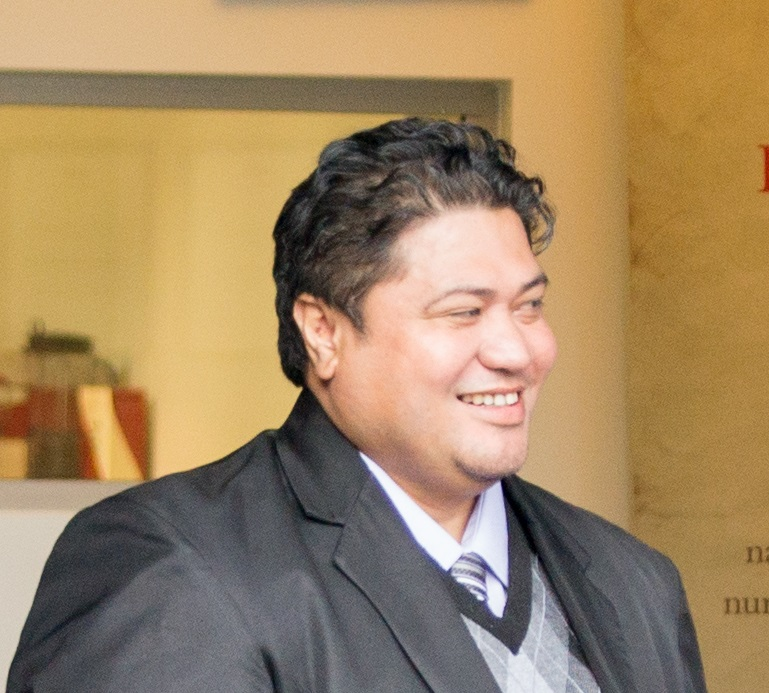 Minsiter of Tongan Agriculture Hon Sangster Saulala in May 2014